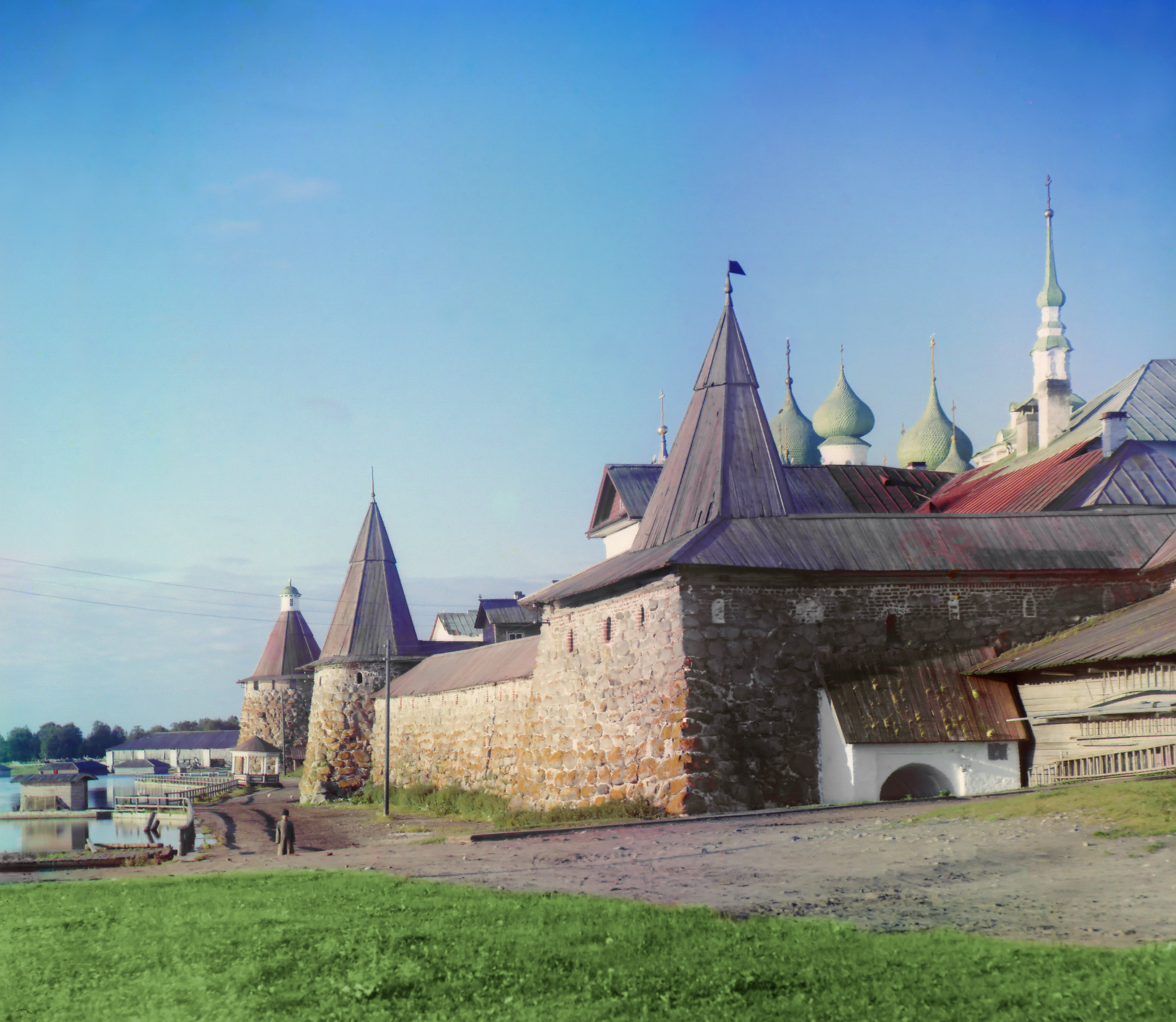 Vid Solovet︠s︡kago m-ri︠a︡ s sushi. [Solovet︠s︡kie ostrova]